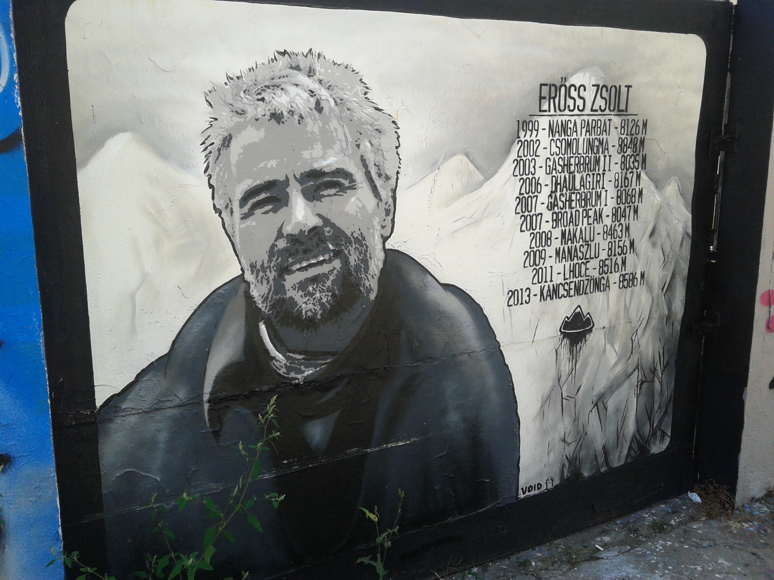 ERŐSS Zsolt 8000 - street art at the Danube - Óbuda - Budapest - Hungary. Graphics made by an ua, maybe "void". Zsolt's eternal name is: Hópárduc (Snow leopard). After 2010 without right leg he successfully summited peaks, among others Lhotse.